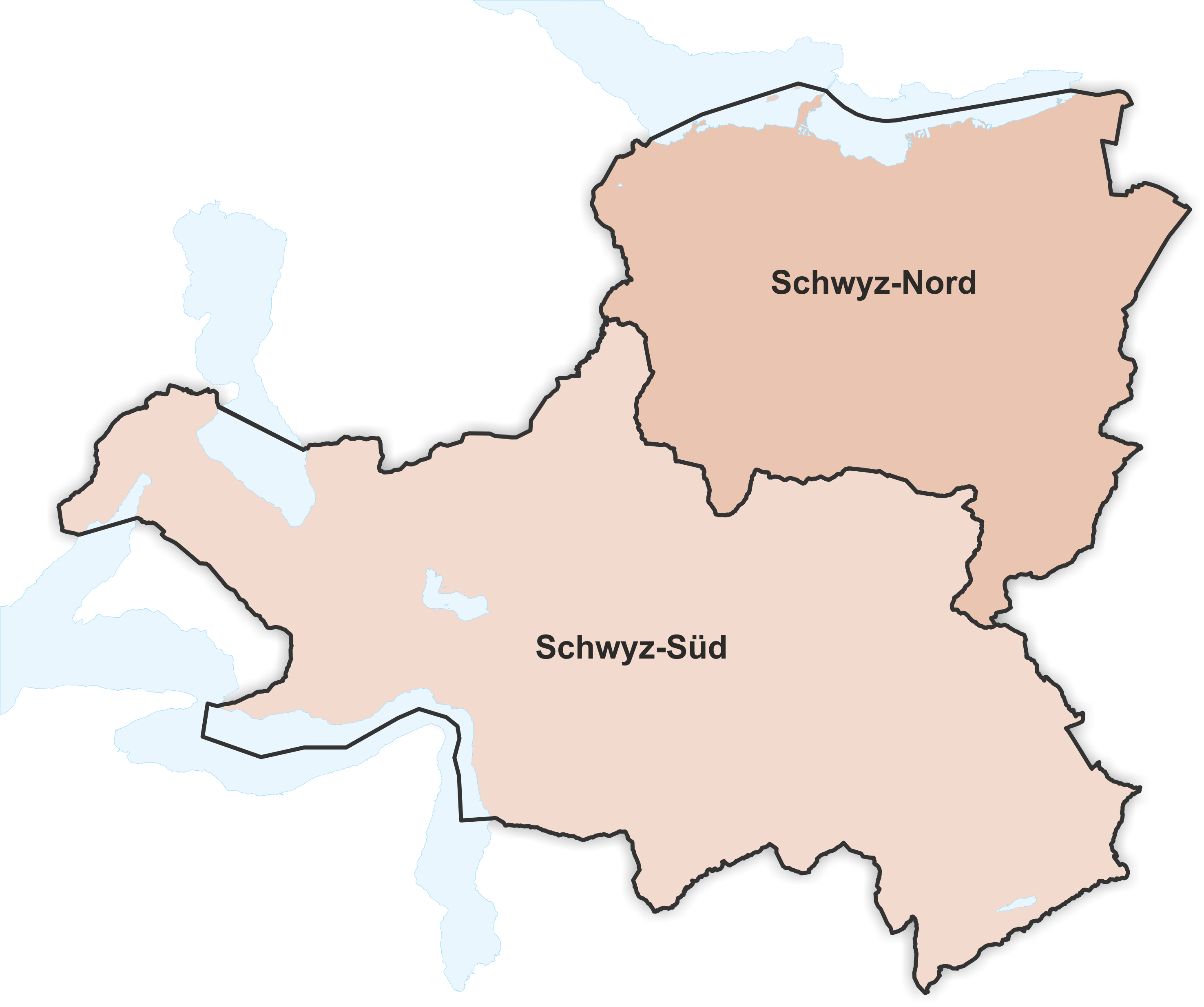 National council constituencies in the canton of Schwyz in 1848